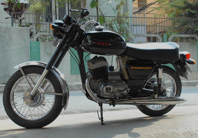 Yezdi Roadking motorcycle, produced in Inida